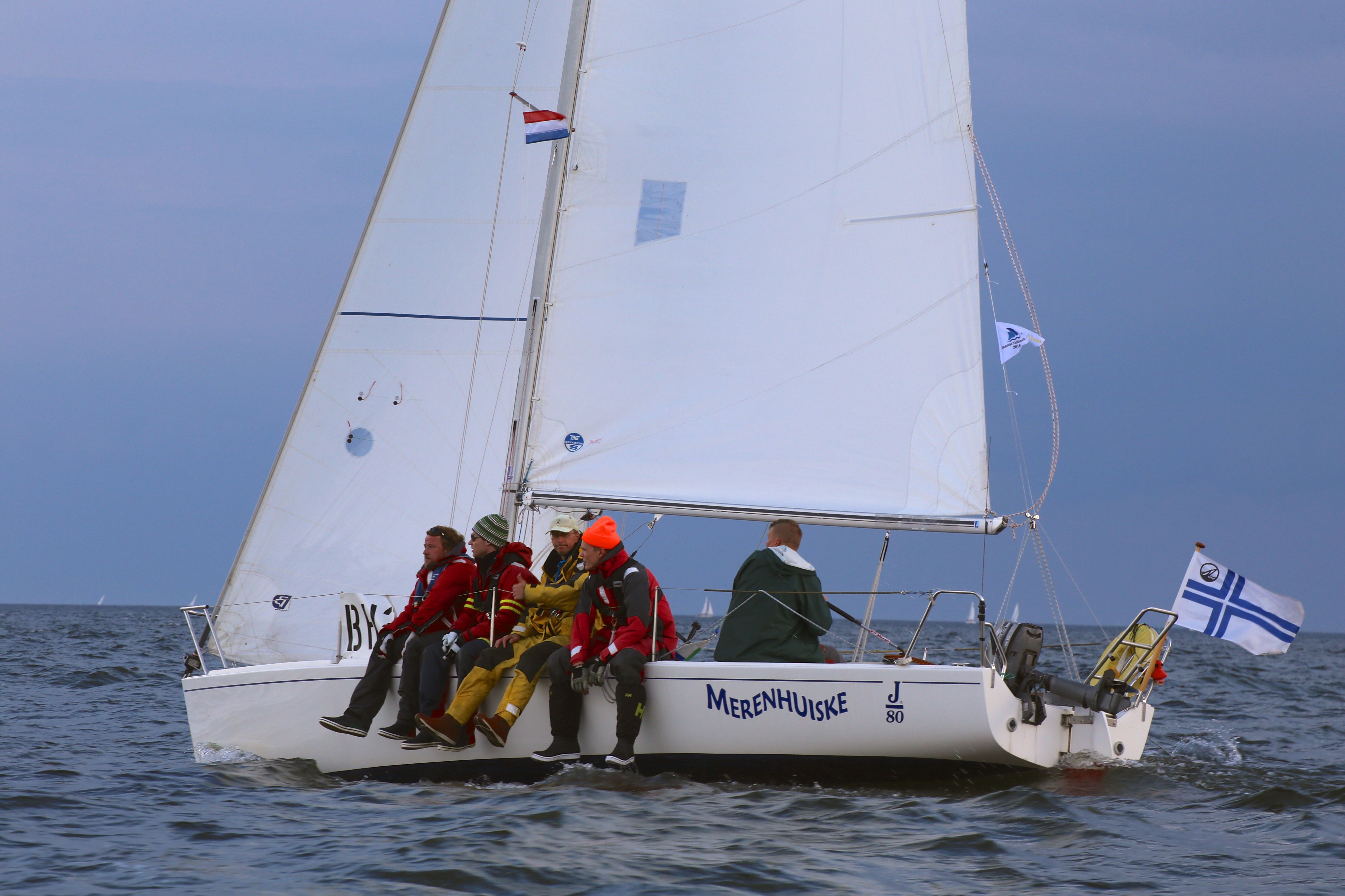 S/Y Merenhuiske, FIN-9106, J-80 at the start of Helsinki - Tallinna Race 2016